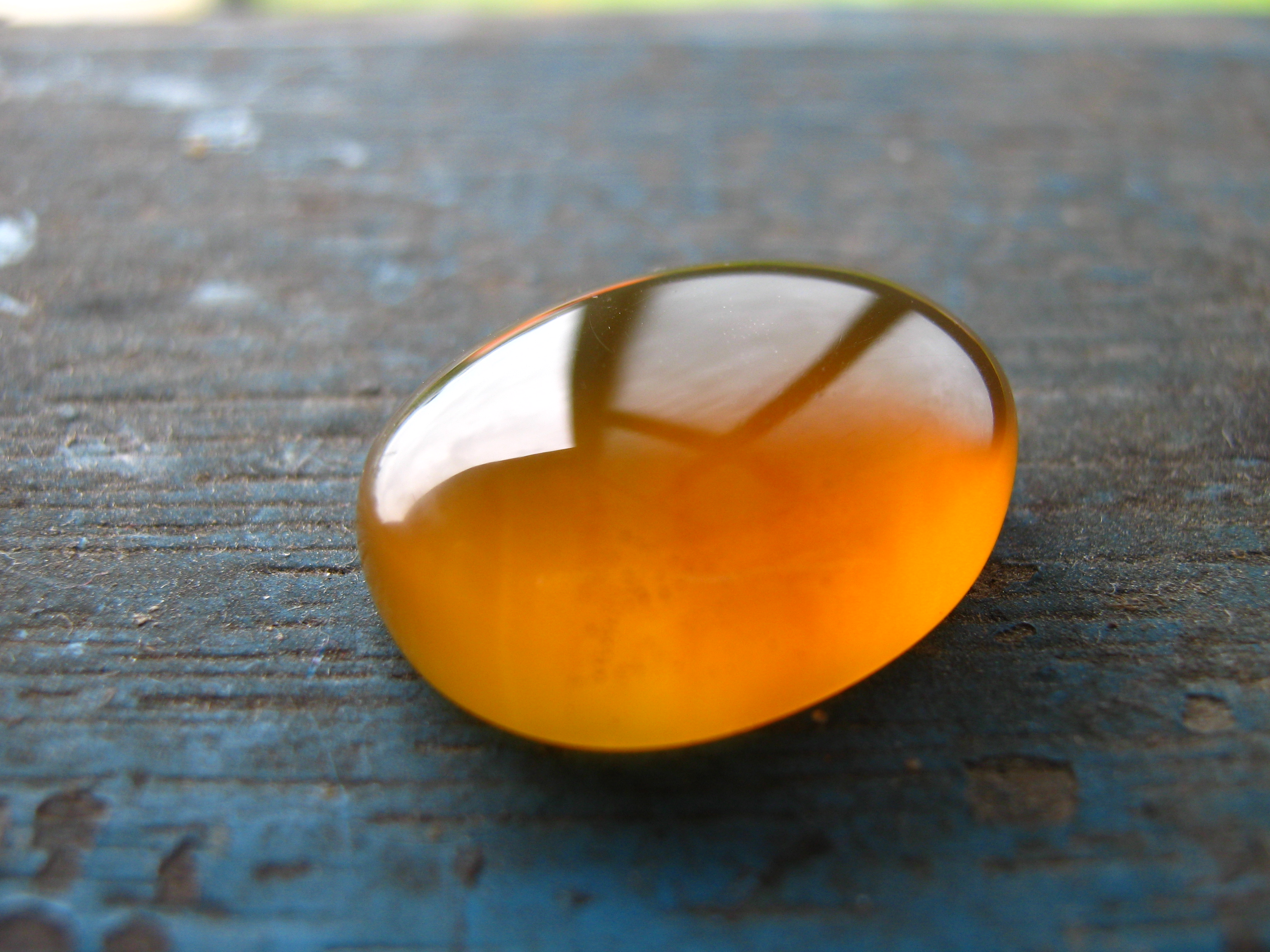 Borneo amber from Sabah, Malaysia. Mined from shale-sandstone-mudstone veins. Very hard and very tough type of Borneo amber. Difficult to break and extremely durable. Although it was hard,to obtain high polish, special technique must be used.